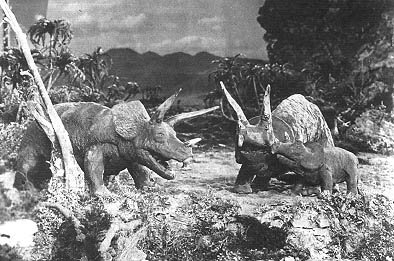 Scene from the 1925 feature film "The Lost World", showing a herd of Triceratops.